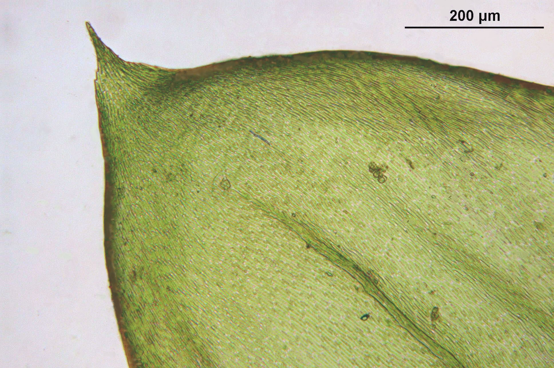 Pseudoscleropodium purum